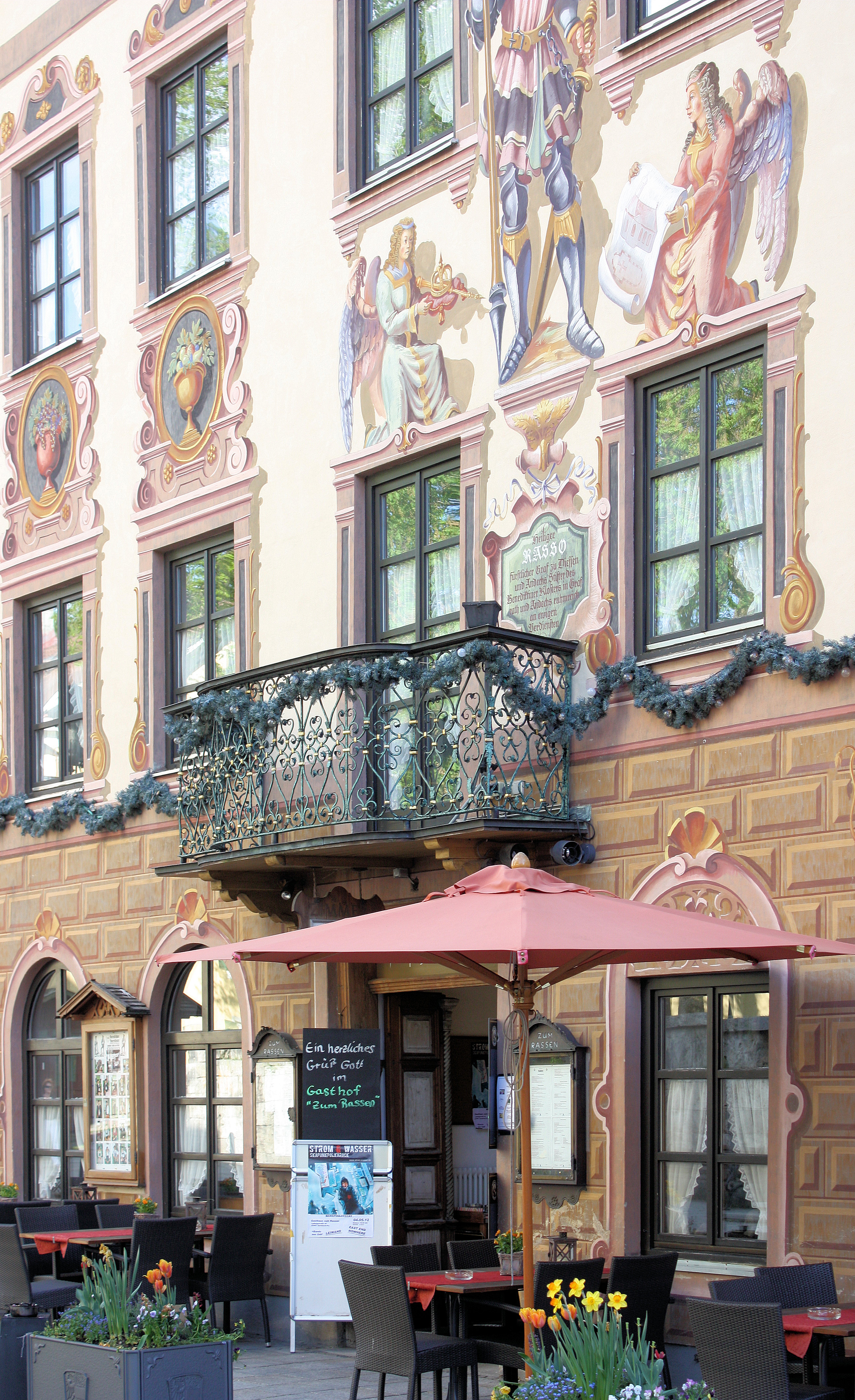 Garmisch-Partenkirchen, the inn "Zum Rassen"